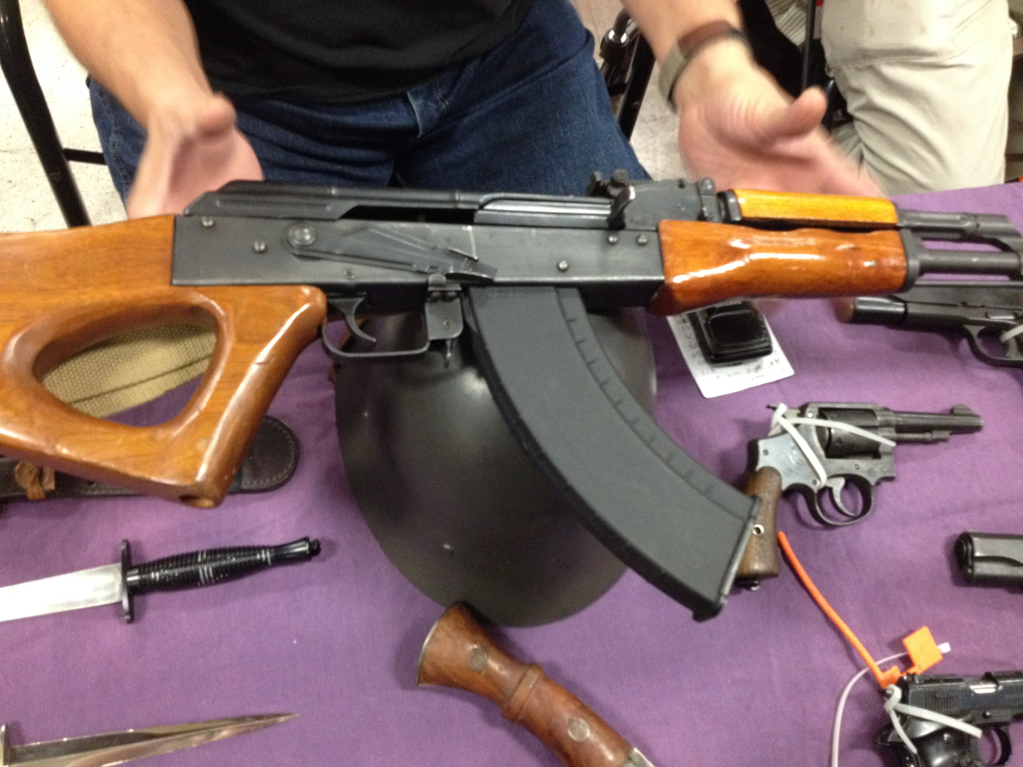 Seller at Gun Show displaying WASR-10 with thumbhole stock.